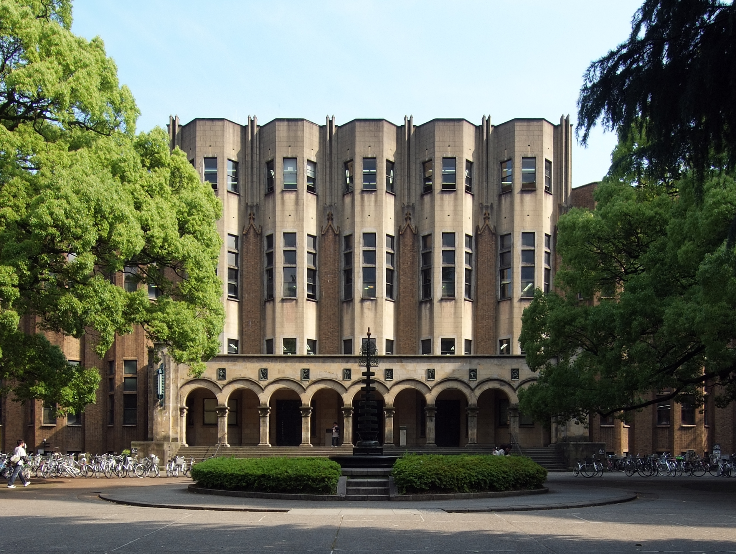 General Library, Tokyo University, 7-3-1 Hongo Bunkyo-ku Tokyo Japan, designed by Yoshikazu Uchida in 1928.